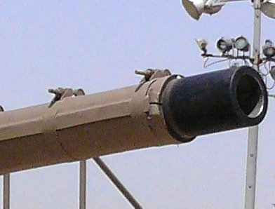 A bolt on thermal sleeve from a Merkava Mk4 Tank